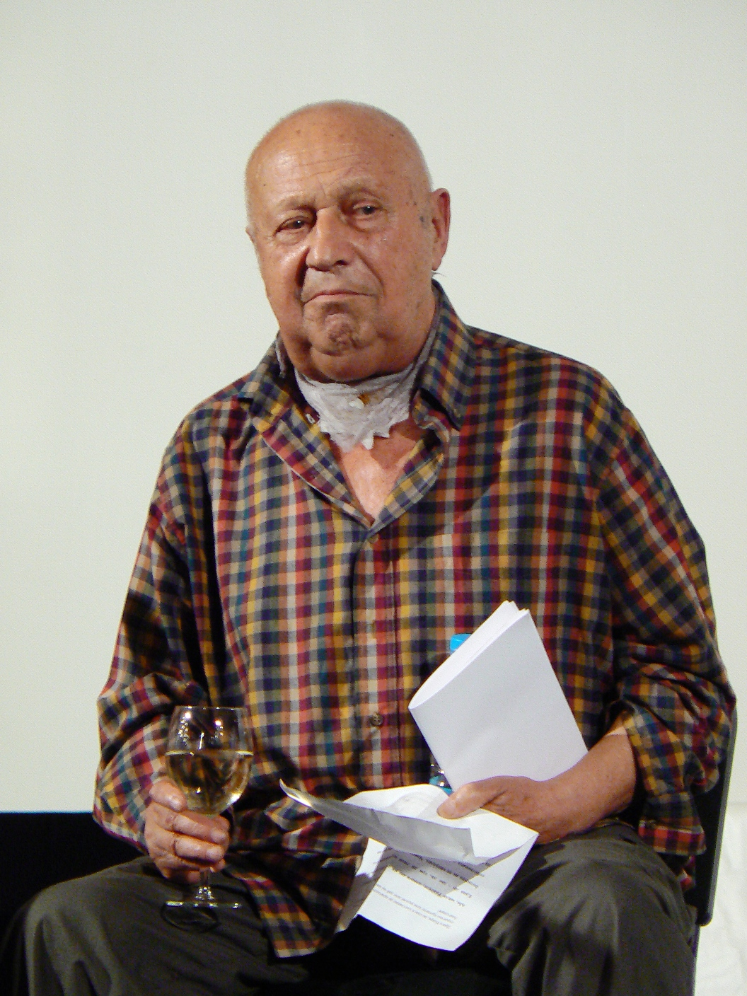 Bulgarian film director Rangel Vulchanov during the presentation of his two books, Cinema House, Sofia, 22 June 2012